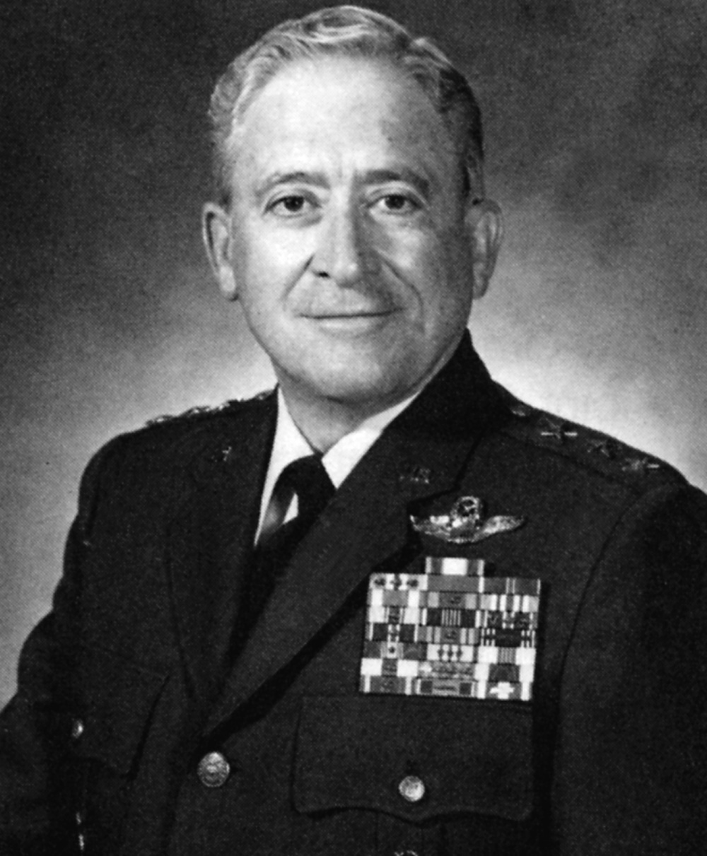 Donald O. Aldridge, USAF